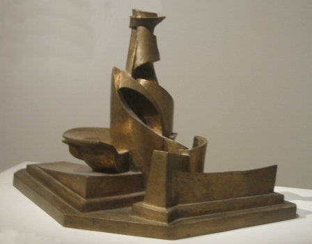 'Development of a Bottle in Space', bronze sculpture by Umberto Boccioni, 1913, Metropolitan Museum of Art